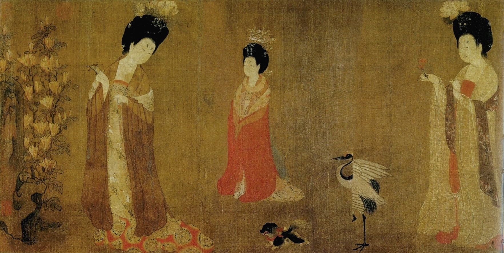 Zhou Fang. Court Ladies Wearing Flowered Headdresses. Detail 2